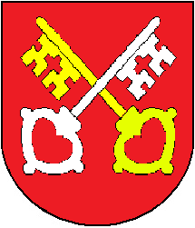 Shield of the municipality of Ardon, Canton of Valais